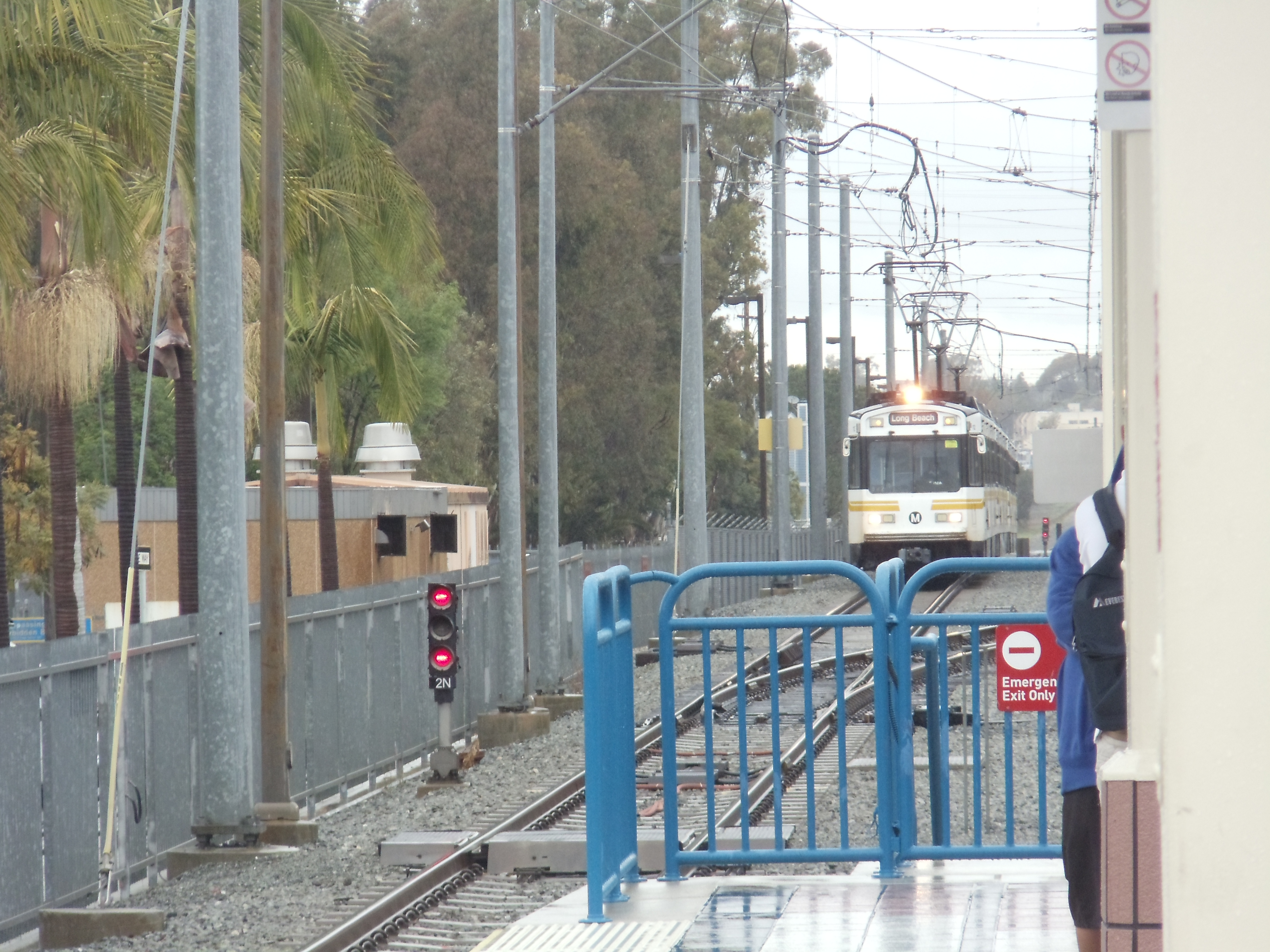 A Metro Blue Line train heading to Long Beach arrives at the station.